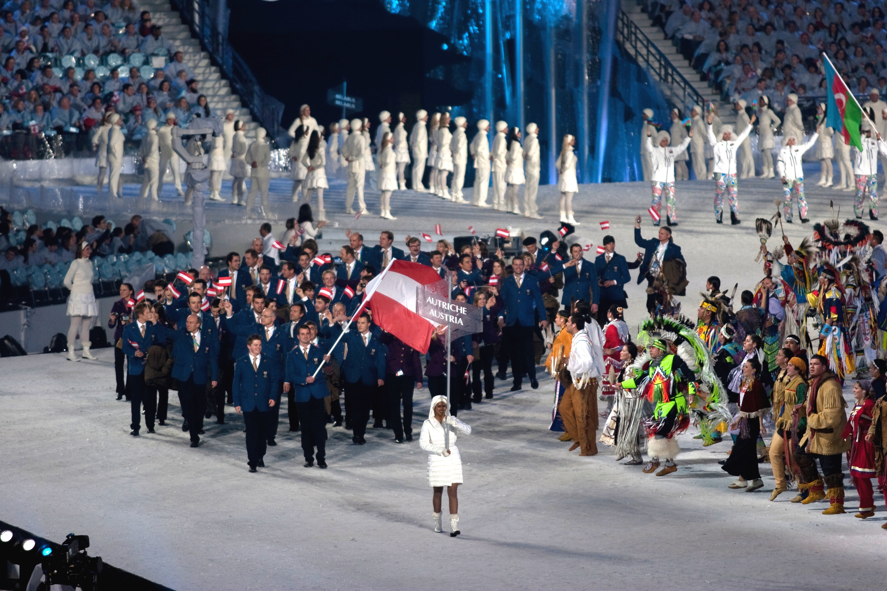 The athletes from Austria entering the stadium at the opening ceremonies of the 2010 Winter Olympics